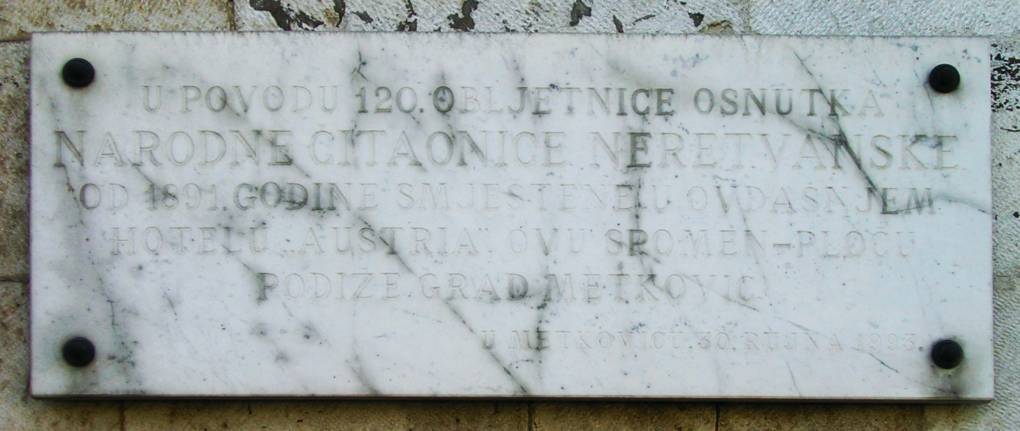 Memorial plaque of the 120th anniversary of the founding of the library in Metković (the building of the former Hotel Austria)